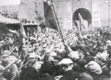 people welcoming the People's Liberation Army in Datong on May 2nd, 1949